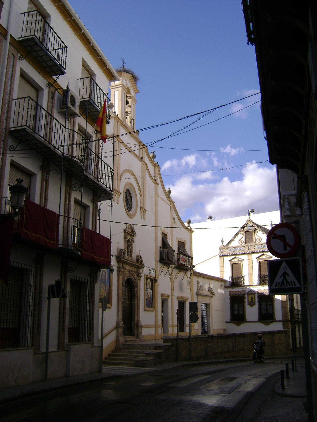 Monks' church in Puente Genil